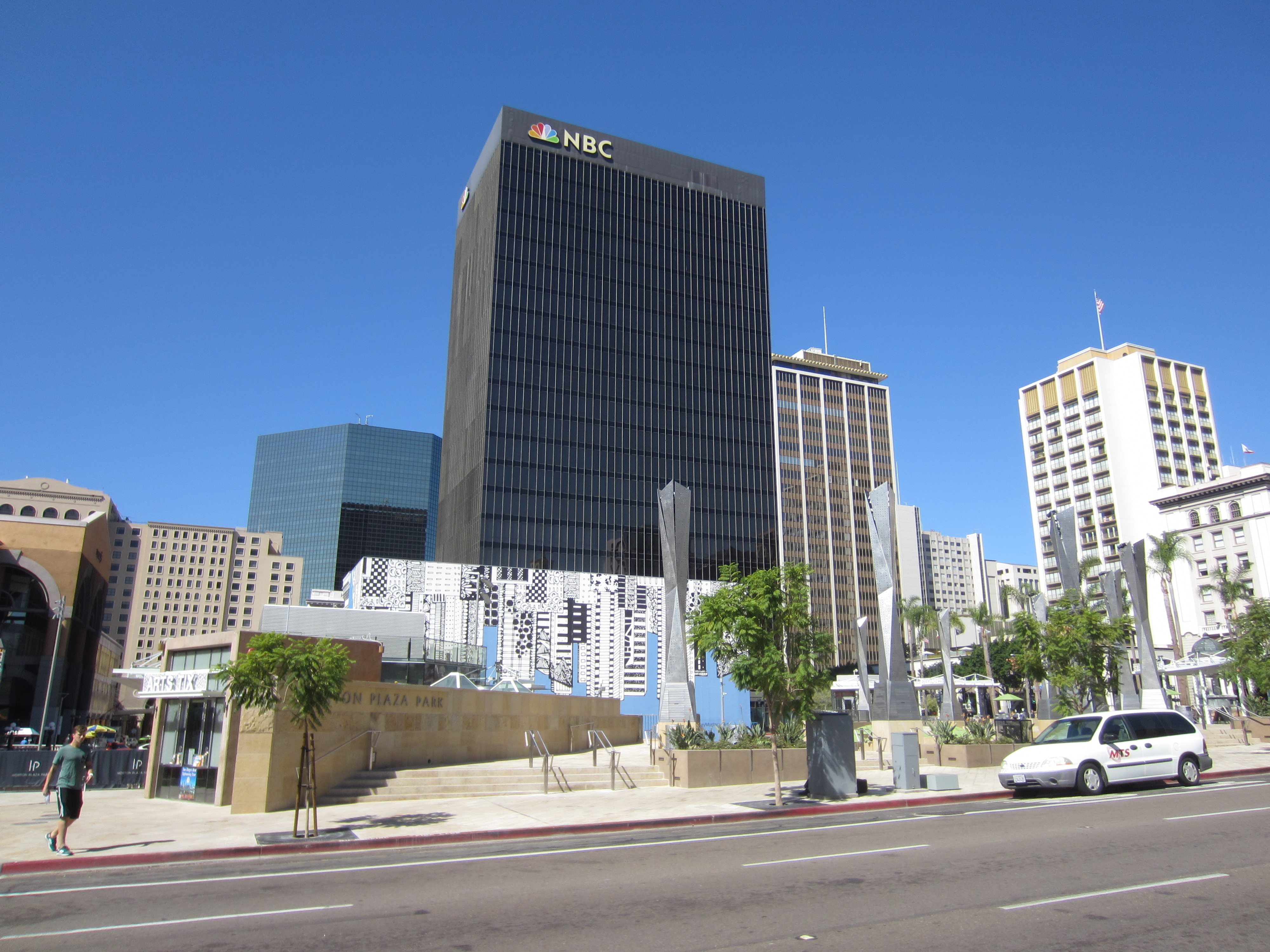 Horton Plaza Park, San Diego, 2016